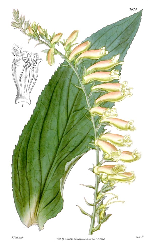 Illustration of Digitalis lutea